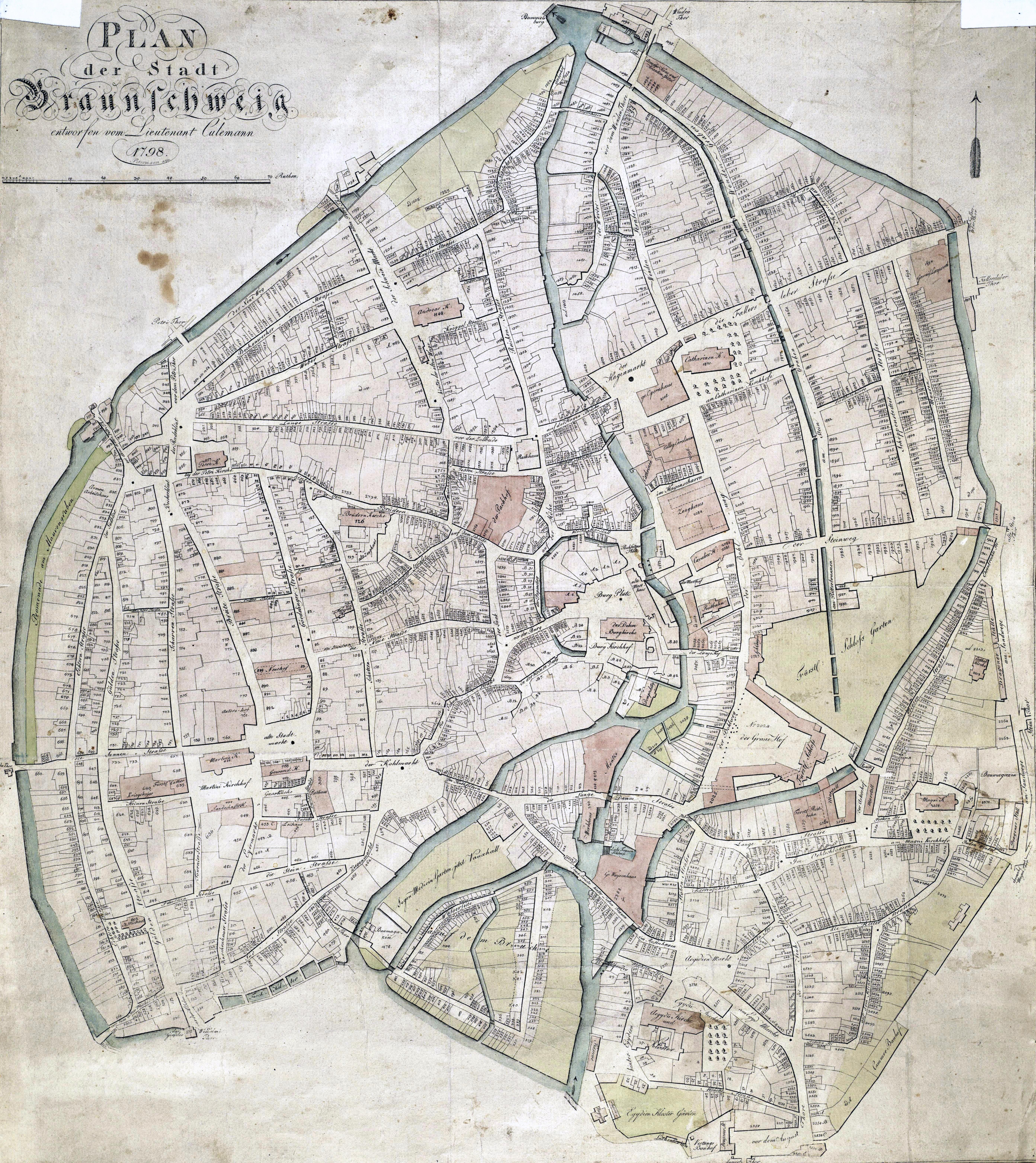 Map of Braunschweig by Friedrich Wilhelm Culemann, dating from 1798. Braunschweig Archives’ signature: H XI 5 18